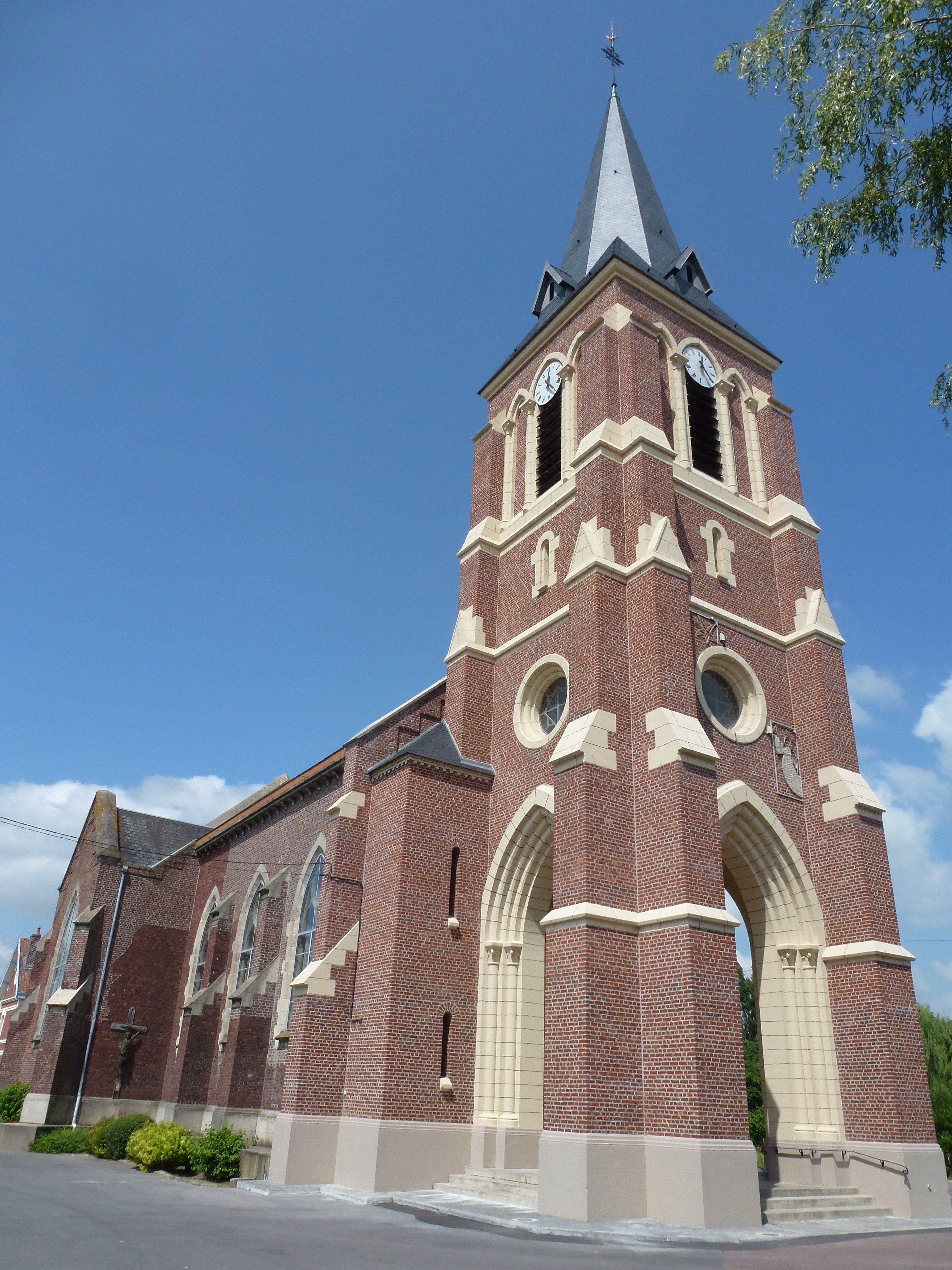 Cuinchy (Pas-de-Calais) église